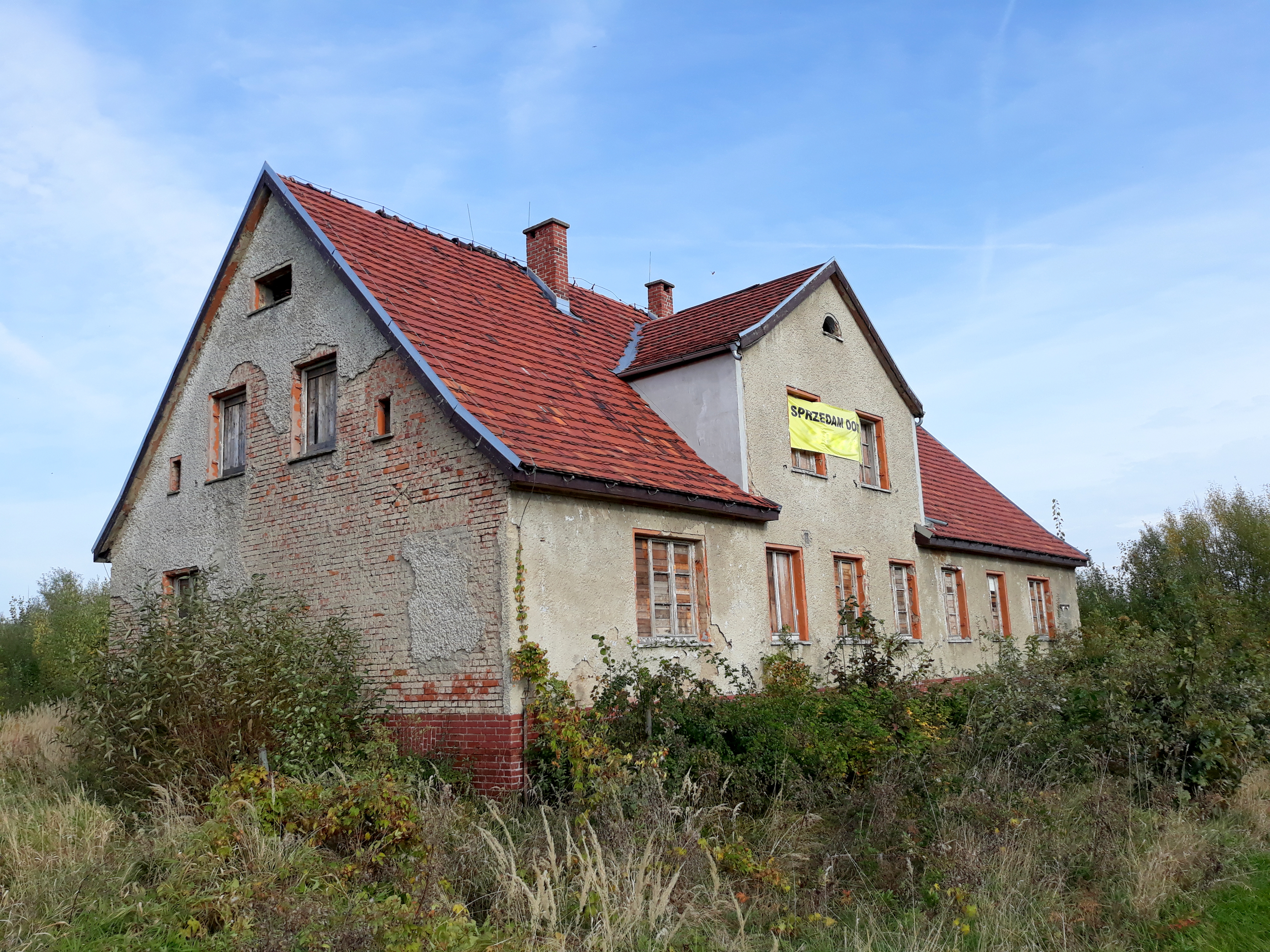 Border Protection Forces in Bliszczyce